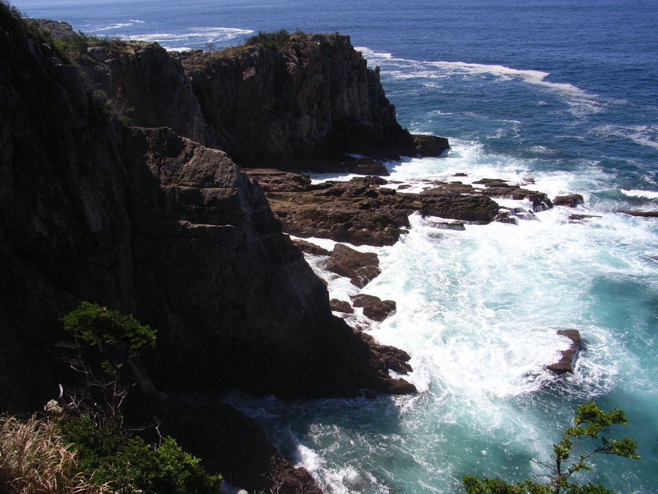 Sandanbeki in Shirahama, Wakayama prefecture, Japan